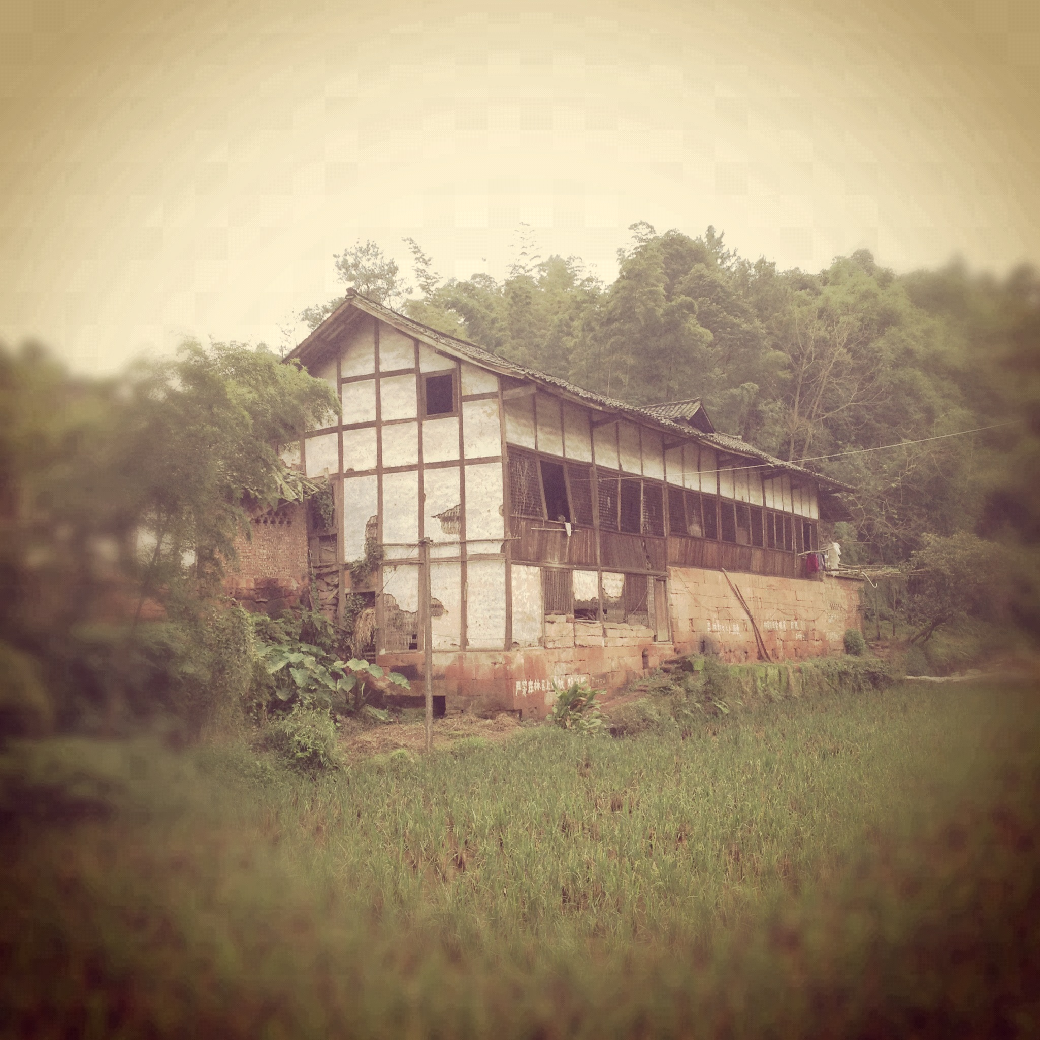 This is a farmhouse in Chengdu Plain, Sichuan, China. It is part of the Linpan settlement.